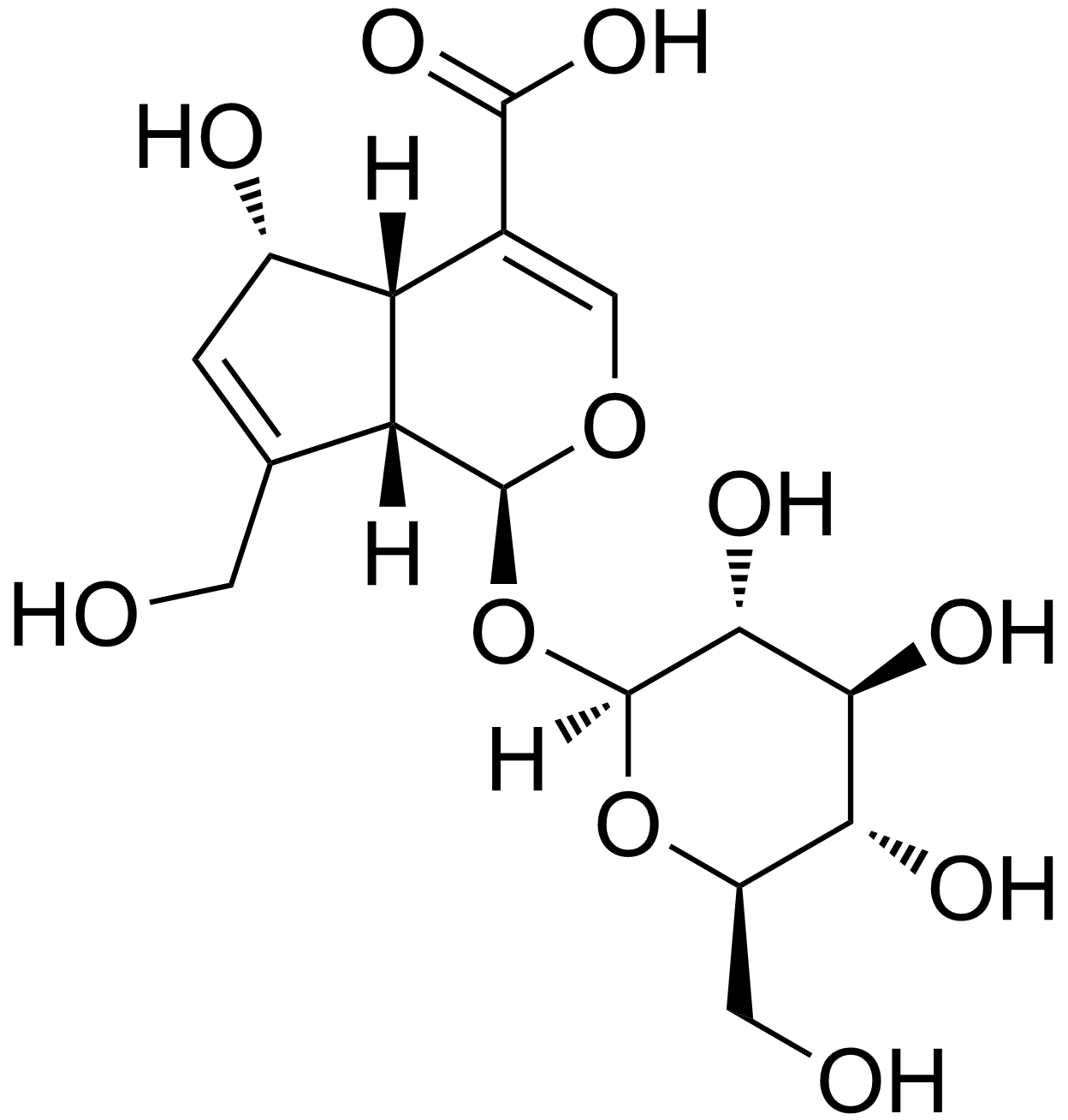 Chemical structure of deacetylasperulosidic acid